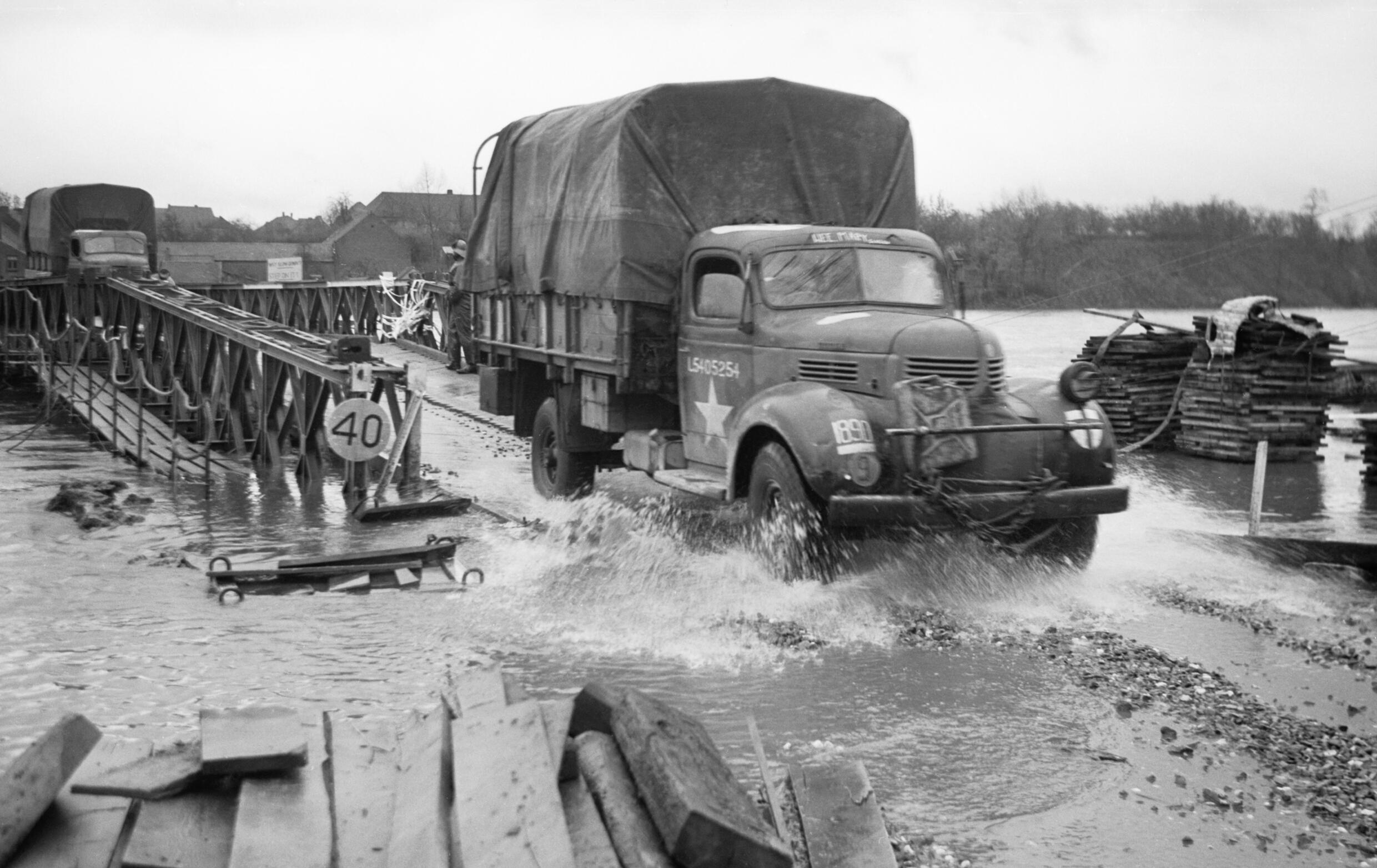 British supply trucks crossing a Bailey bridge over the Maas in full flood at Maeseyk in Holland, 25 November 1944. Lorries crossing a Bailey bridge over the Maas in full flood at Maeseyk in Holland, 25 November 1944.